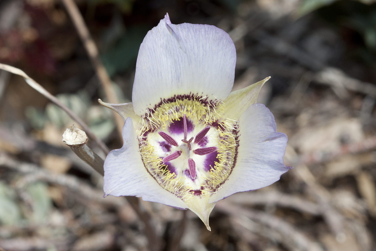 Calochortus ambiguus. Mt. Ord, Maricopa Co., AZ, USA. May 20